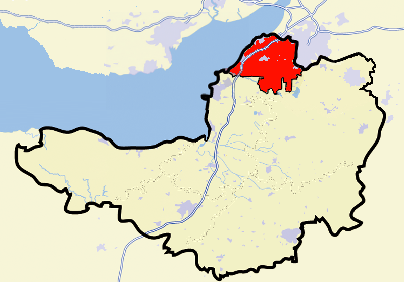 Image in reinstated county of the constituency. Use of Category:Somerset Maps (various) and involved. No attribution required.